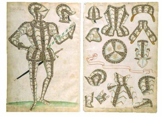 Armor of Henry Lee design